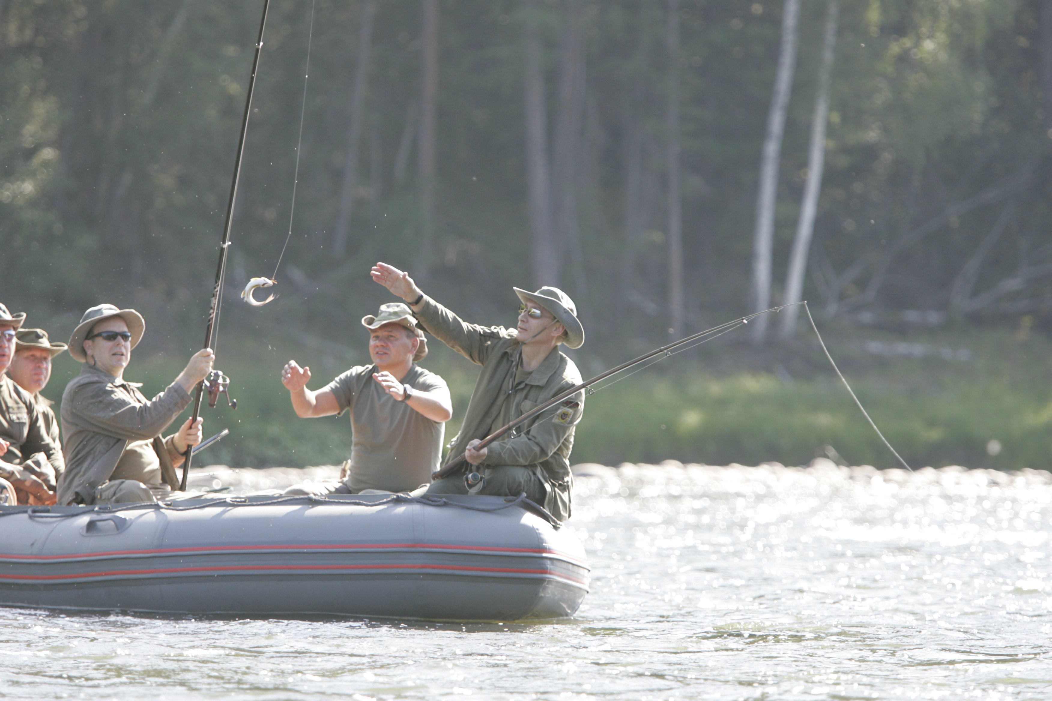 TUVA. During a 48-kilometre long boat trip on the Yenisei River.